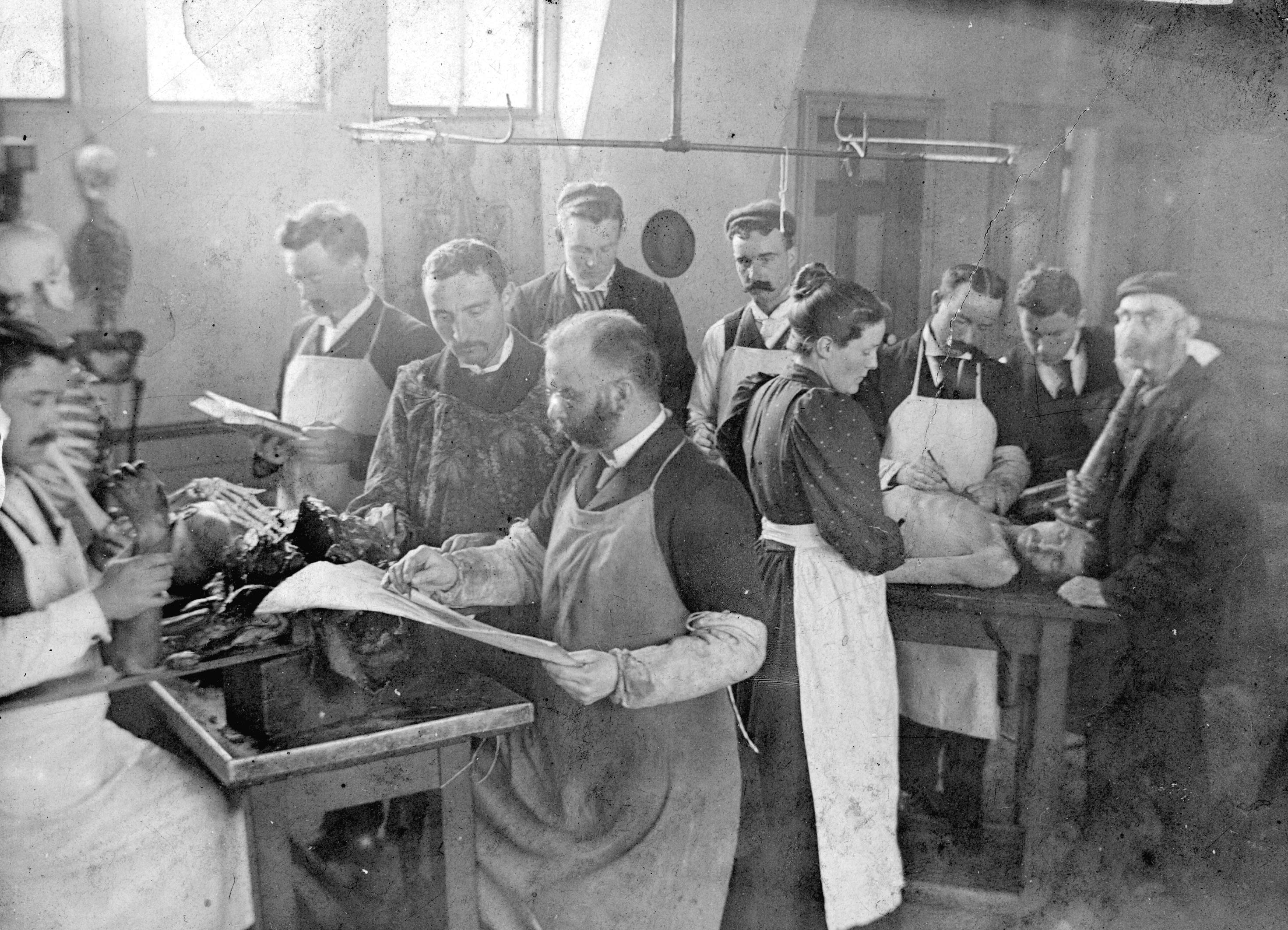 The Halifax Medical College was established in 1867 as the Medical Department at Dalhousie College. In 1875 it became a separate corporation and constructed a building on the corner of Carleton and College Streets from designs by Henry F. Busch. In 1889, the two institutions united again, Dalhousie having recently completed the Forrest Building just across the street from the Medical College. Enid Johnson MacLeod, in Petticoat Doctors (1990), has identified the woman in the Anatomy Laboratory as Clara Mary Olding, the third woman to graduate (1896) from the college.